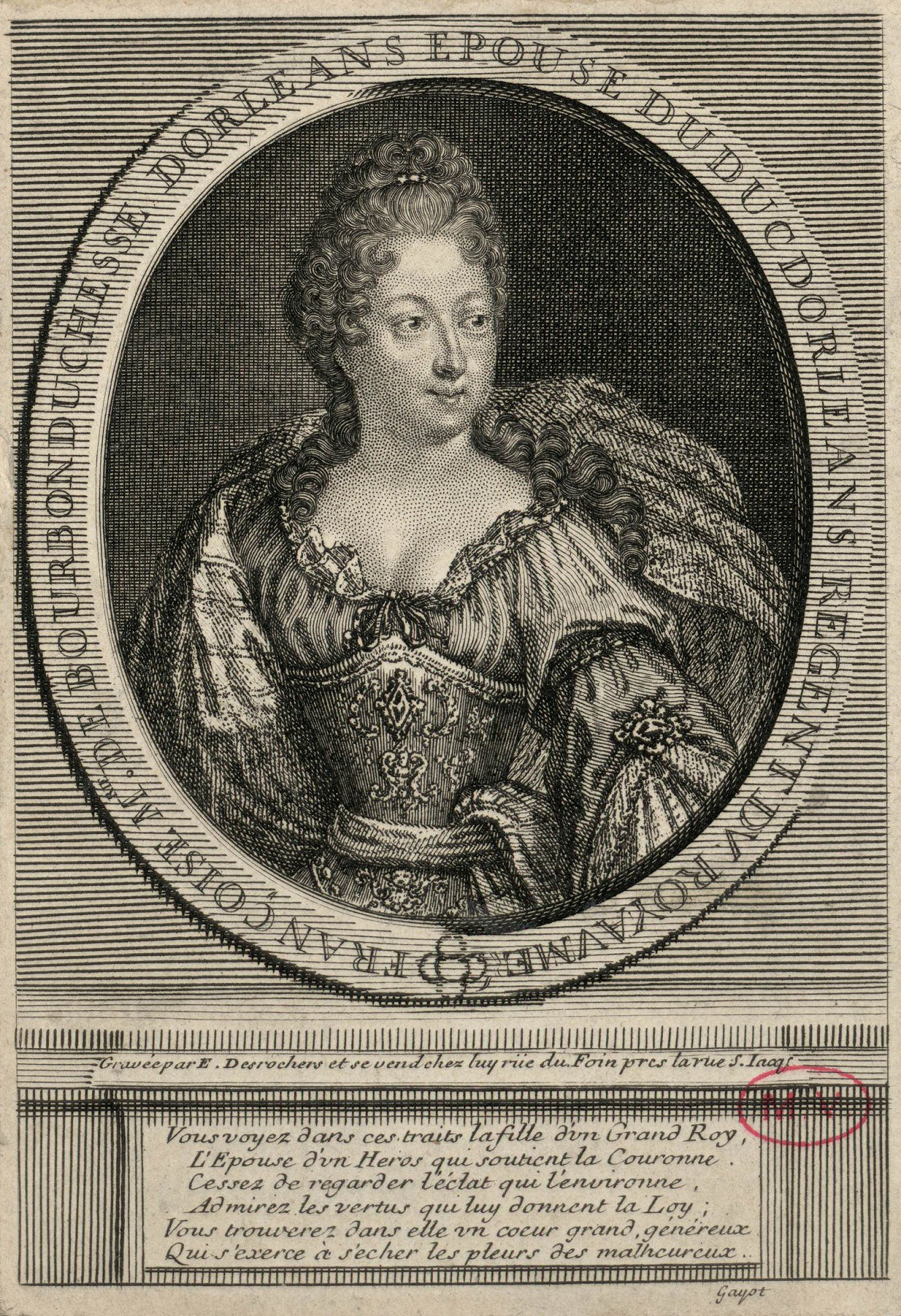 Portrait of Françoise-Marie, Duchess of Orléans during the Regency